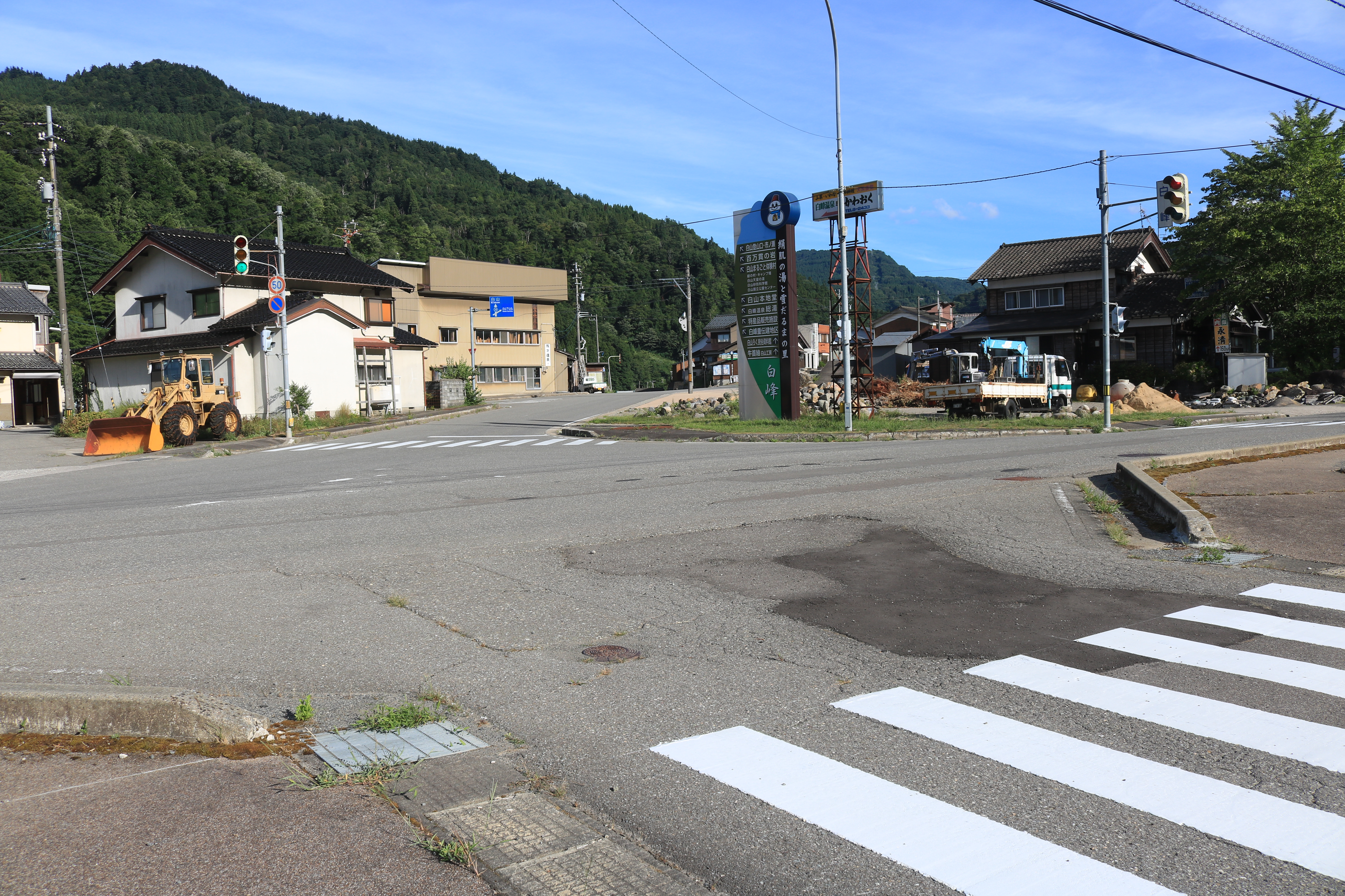 Route 157 and Ishikawa Prefectural Road Route 33 in Shiramine, Hakusan, Ishikawa Prefecture, Japan.